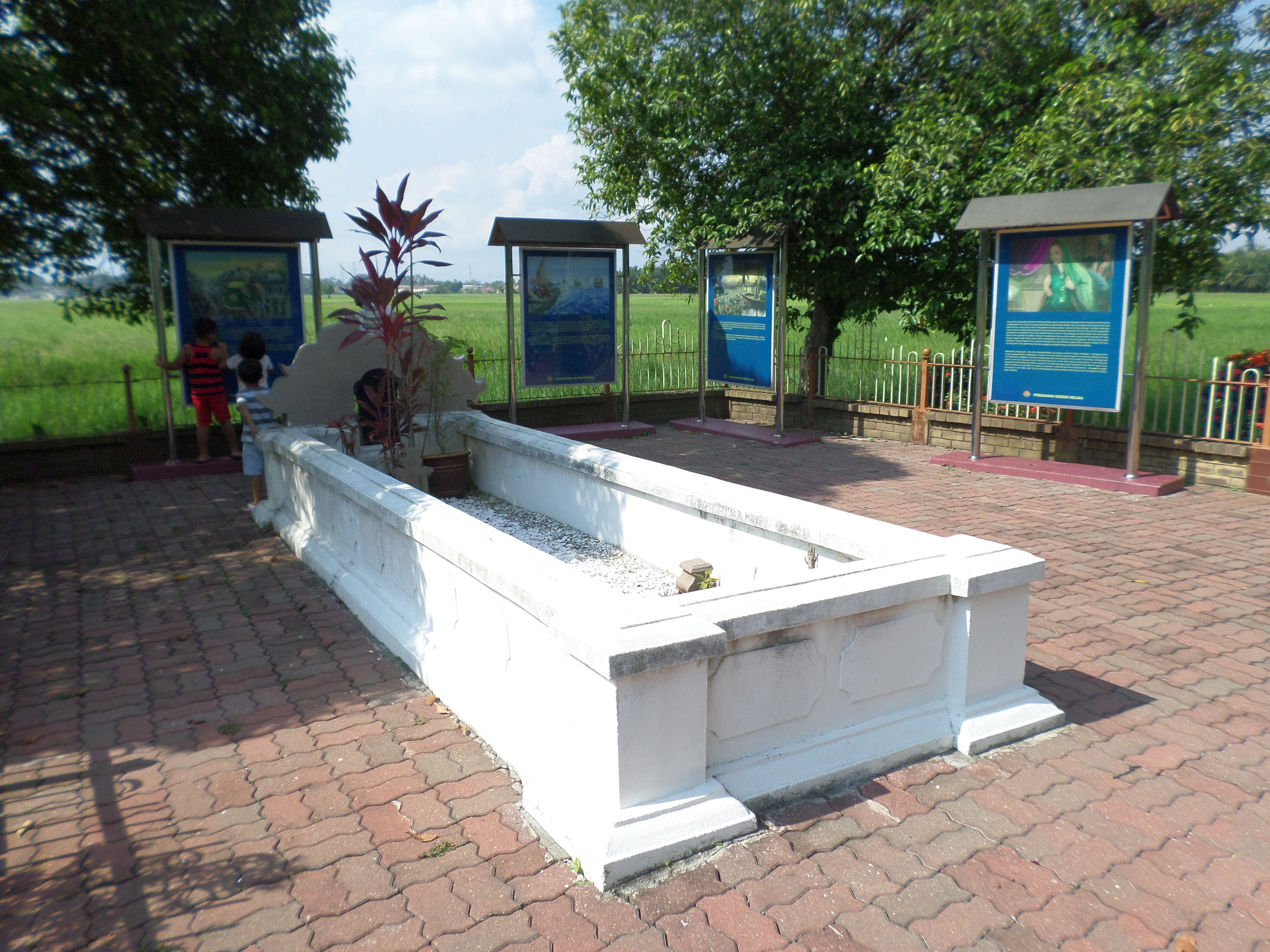 Tun Teja Mausoleum, Merlimau, Jasin, Malacca, MalaysiaBahasa Melayu: Makam Tun Teja, Merlimau, Jasin, Melaka, Malaysia